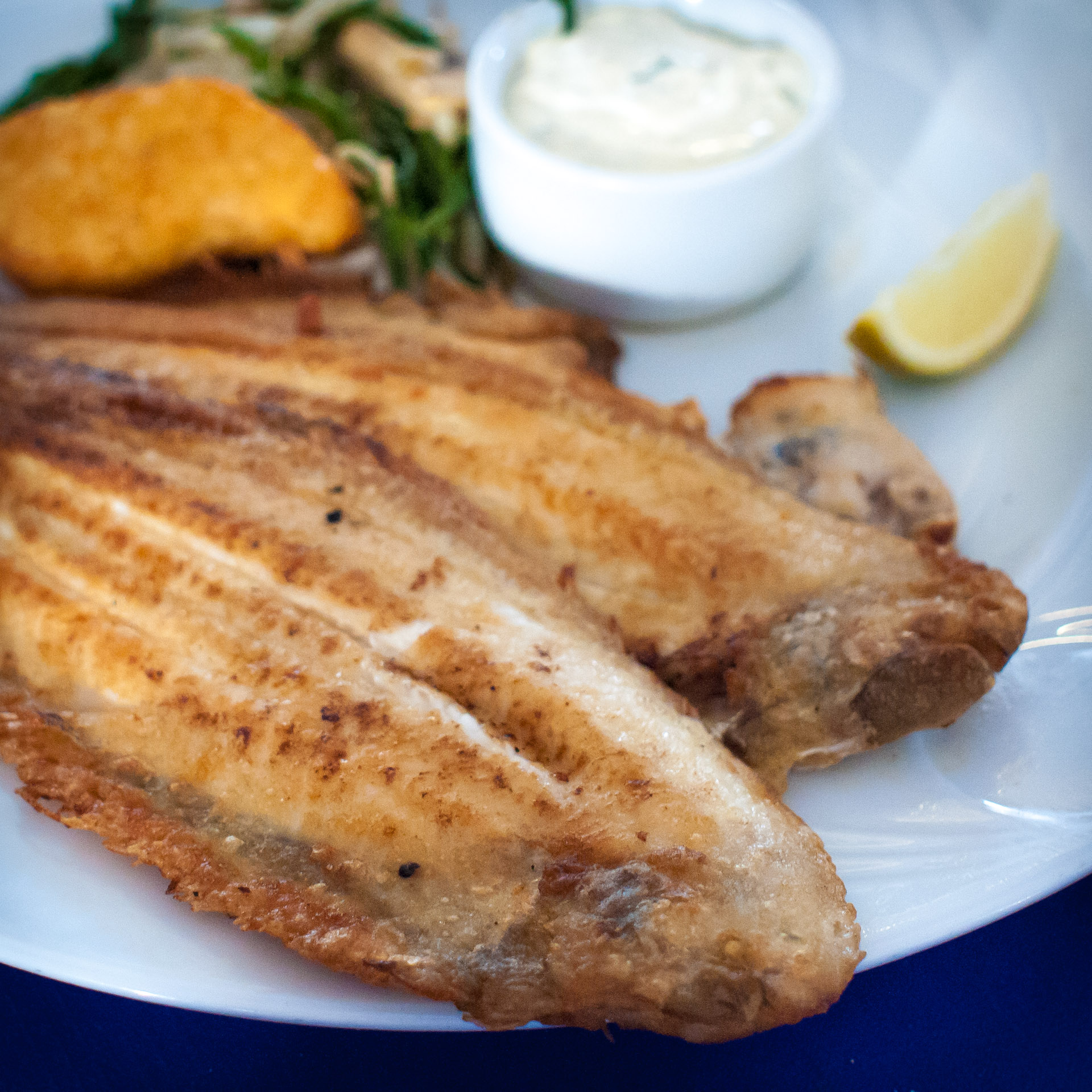 Gebakken sliptong (pan-fried "slip" or young sole) at a restaurant in Yerseke, Zeeland.